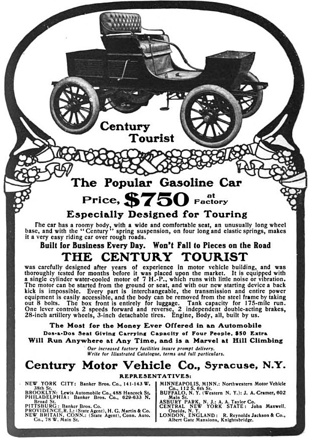 Century Tourist - 1903 - Syracuse, New York